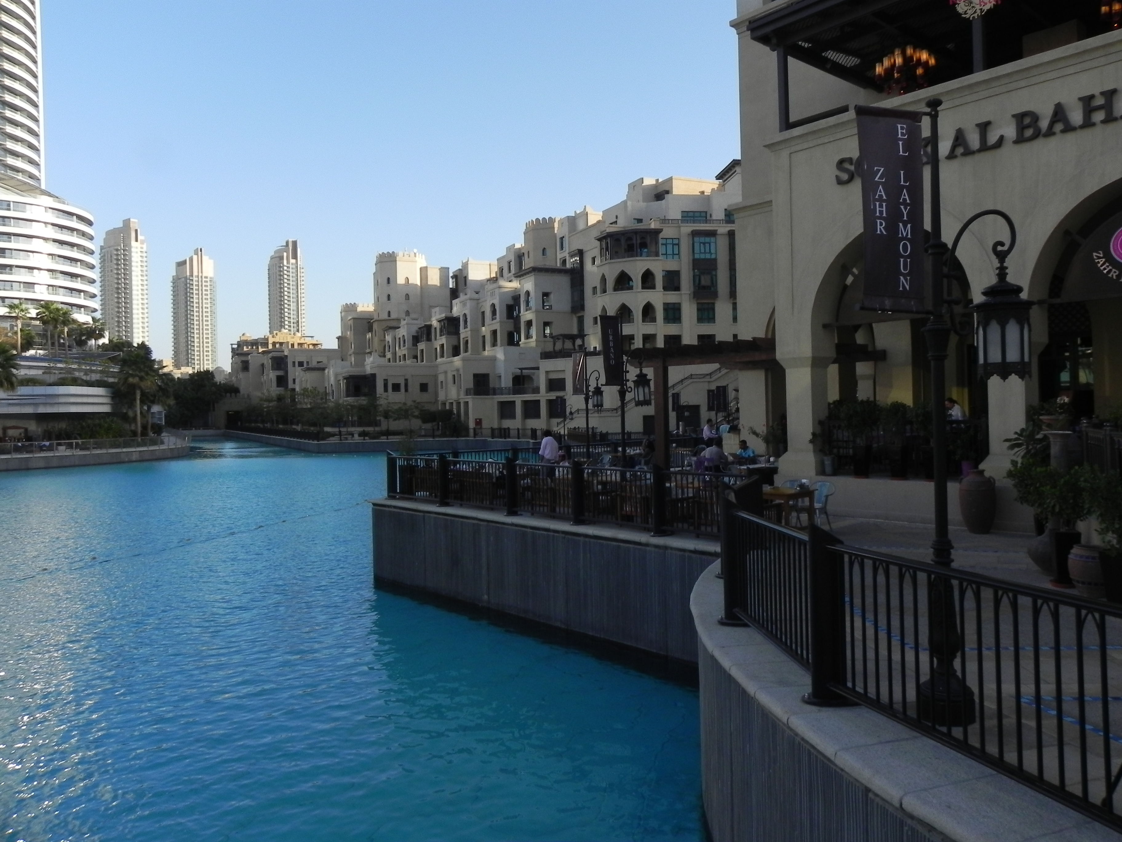 From the edge of Souq al Bahar